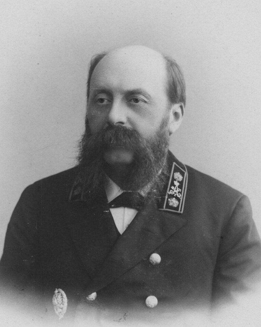 Nikolay Belelyubski, scientist and designer of bridges from Taganrog